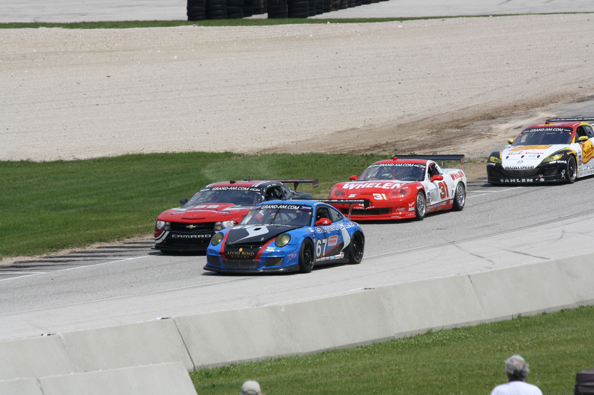 Four sports cars battle for the class victory at Road America. #66 Bill Lester was passed as he was conserving fuel. Third place car #31 of Eric Curran and John Heinricy ended up winning.